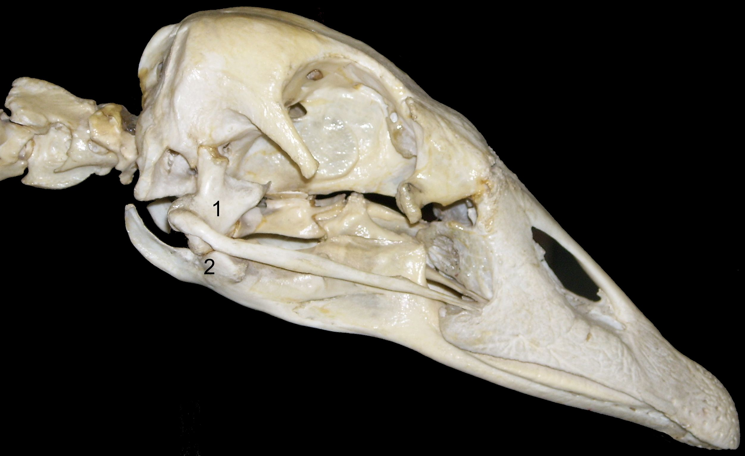 Skull of a domestic goose. primary temporomandibular_joint: 1 Quadratum 2 Articulare